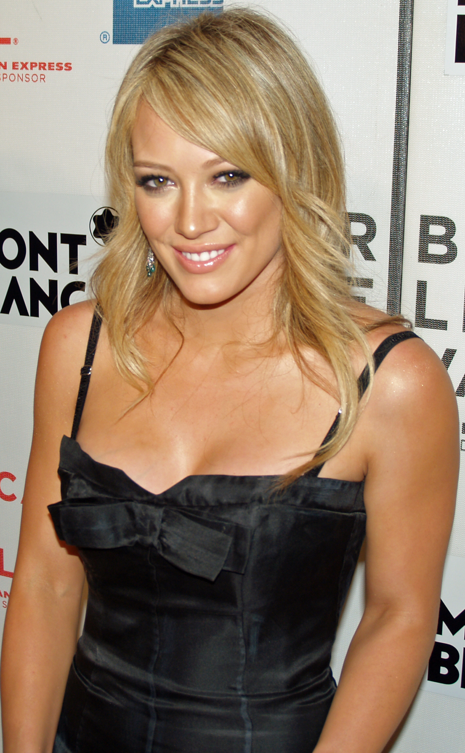 Hilary Duff at the premiere of War, Inc. at the 2008 Tribeca Film Festival.